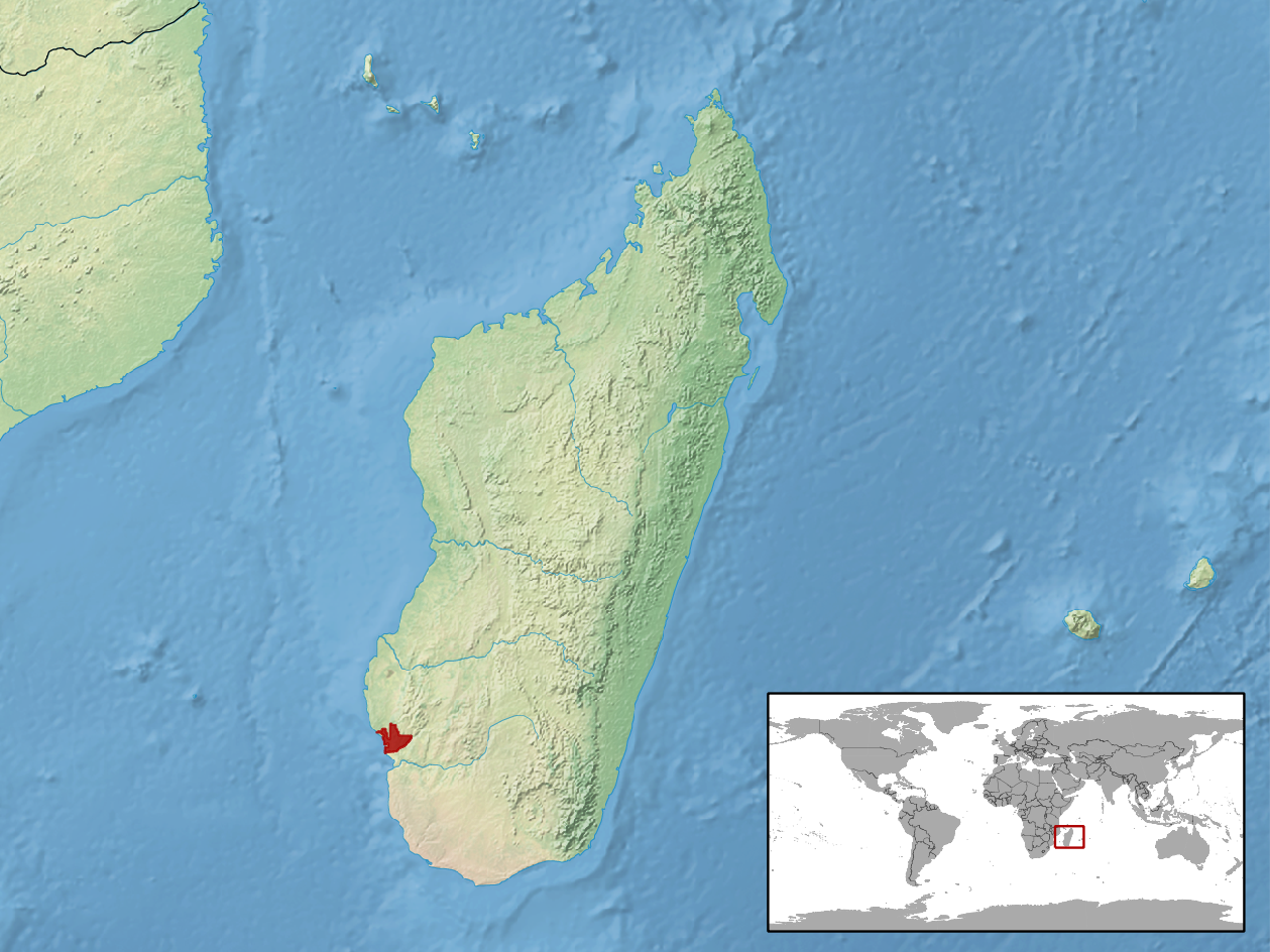 geographic distribution of Voeltzkowia petiti